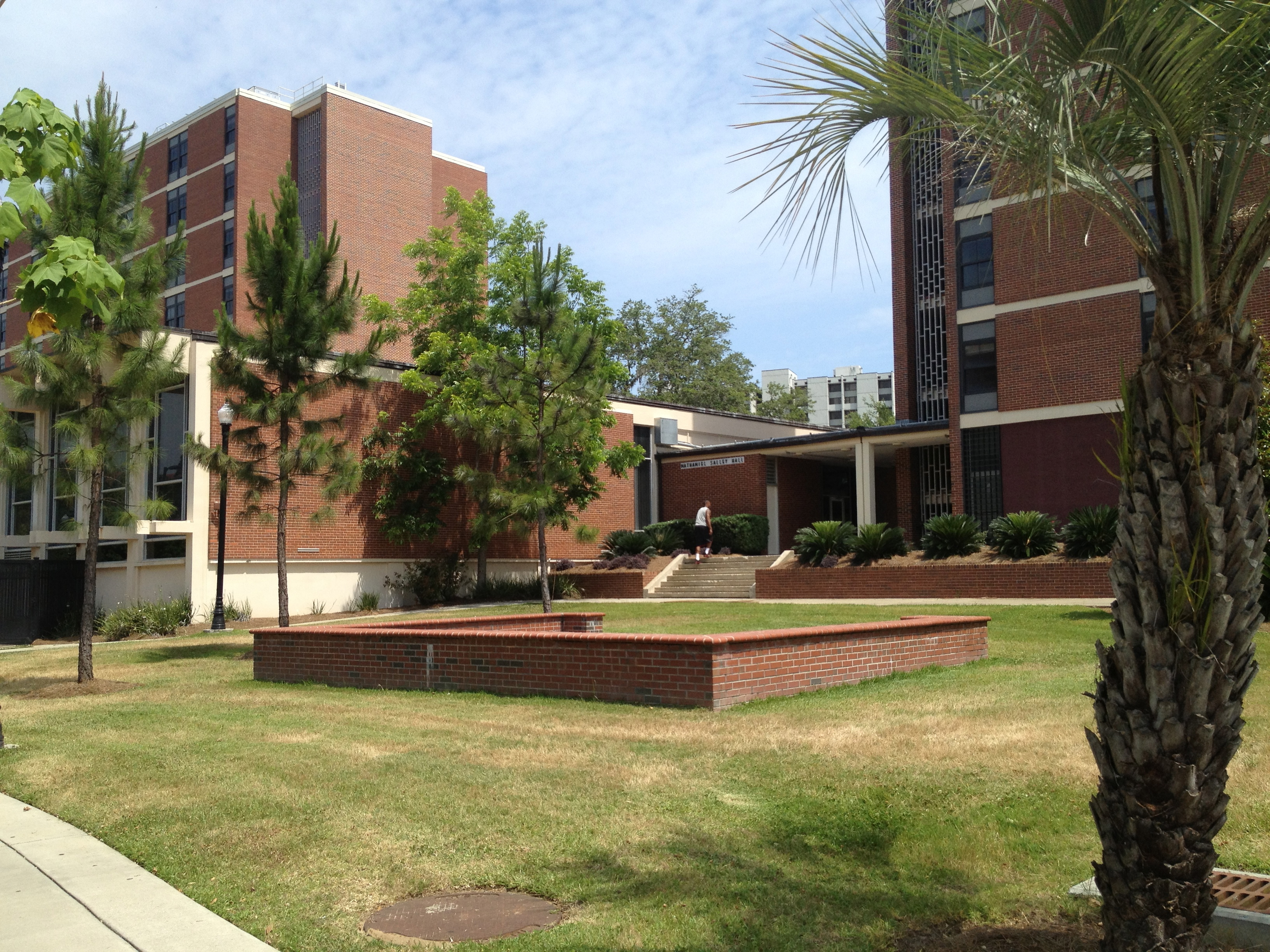 This is a photo of Salley Hall at FSU